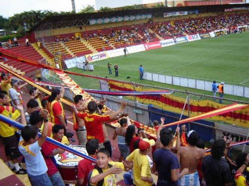 Stadium Rosabal Cordero